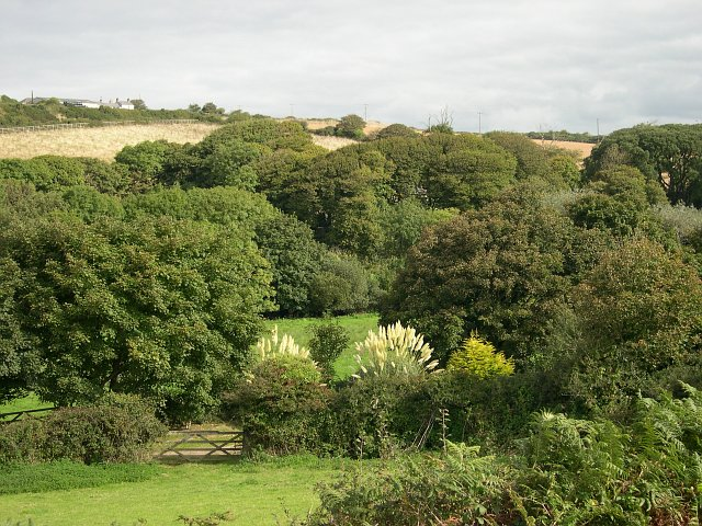 Roseworthy Valley. Pampas Grasses in a private garden and pasture land.